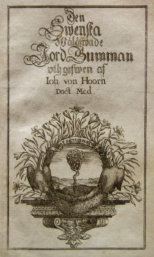 From the book "Den swenska wäl-öfwade jord-gumman" by physician Johan von Hoorn. The first Swedish book on midwifery, 1697.